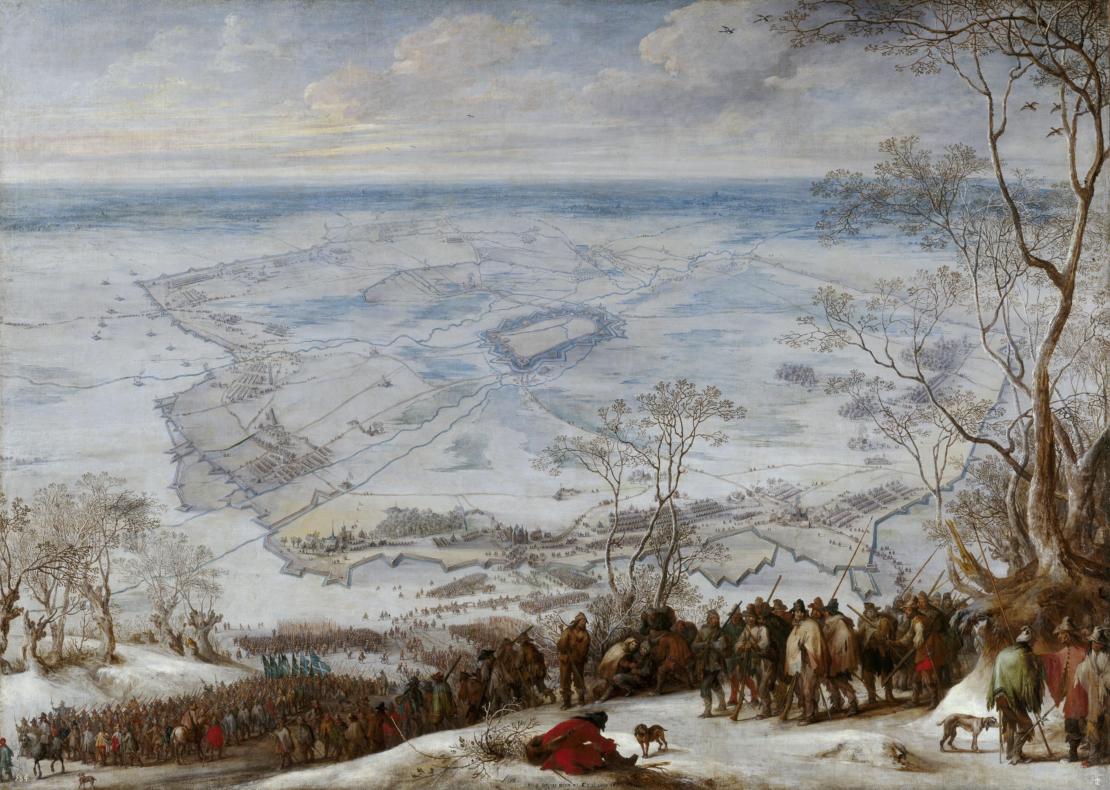 Siege of Aire sur la Lys by the Spanish commander, Ferdinand of Austria, Cardinal-Infante, 1641.